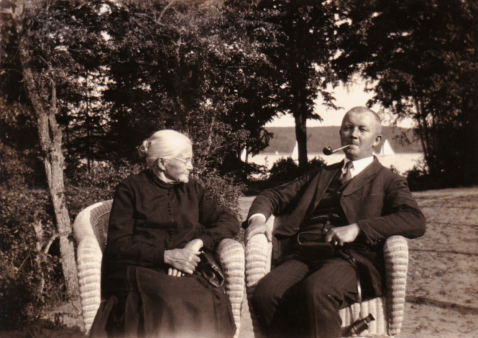 Ludwig Armbruster with his mother Luise around 1925 (Überlingen, Lake of Constance, Germany)